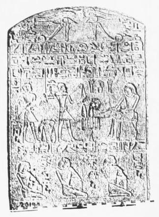 Funerary stele for the Treasurer, Sealer of the King of Upper Egypt, Ikhernofret, dating to Year 1 of pharaoh Nimaatre (Amenemhat III). Limestone from Abydos, reign of Amenemhat III (Year 1), 12th Dynasty, Middle Kingdom. Cairo Museum, CG 20140.